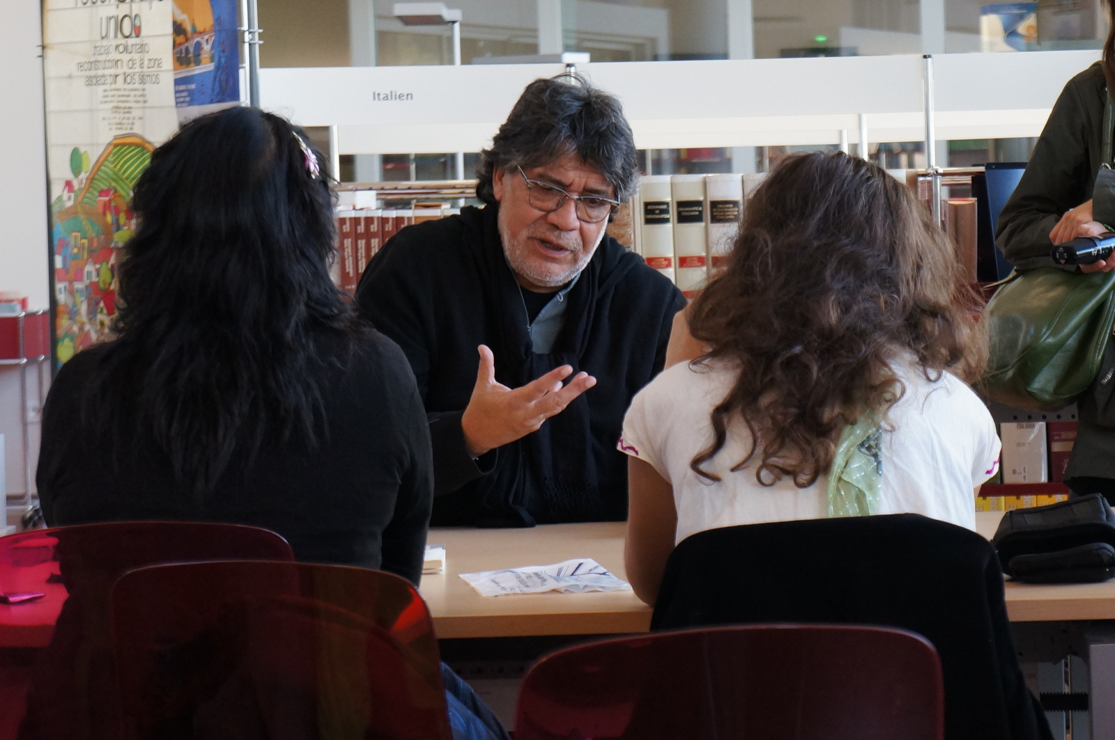 Luis Sepulveda CRL - Université Toulouse Le Mirail - Université Toulouse Le Mirail - 2013